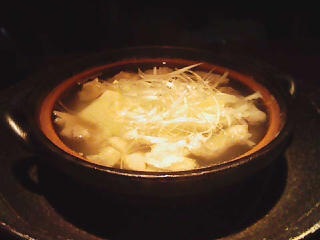 Nikomi, the tripe stew